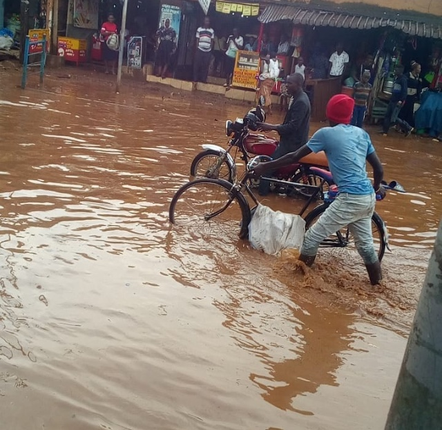 This is an image with the theme "Africa on the Move or Transport" from: Uganda